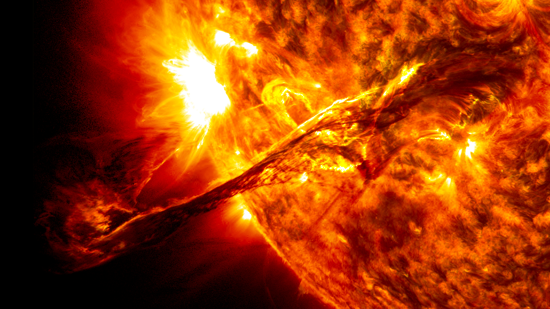 On Aug. 31, 2012, a giant prominence on the sun erupted, sending out particles and a shock wave that traveled near Earth. This event may have been one of the causes of a third radiation belt that appeared around Earth a few days later, a phenomenon that was observed for the very first time by the newly-launched Van Allen Probes. This image of the prominence before it erupted was captured by NASA's Solar Dynamics Observatory (SDO).